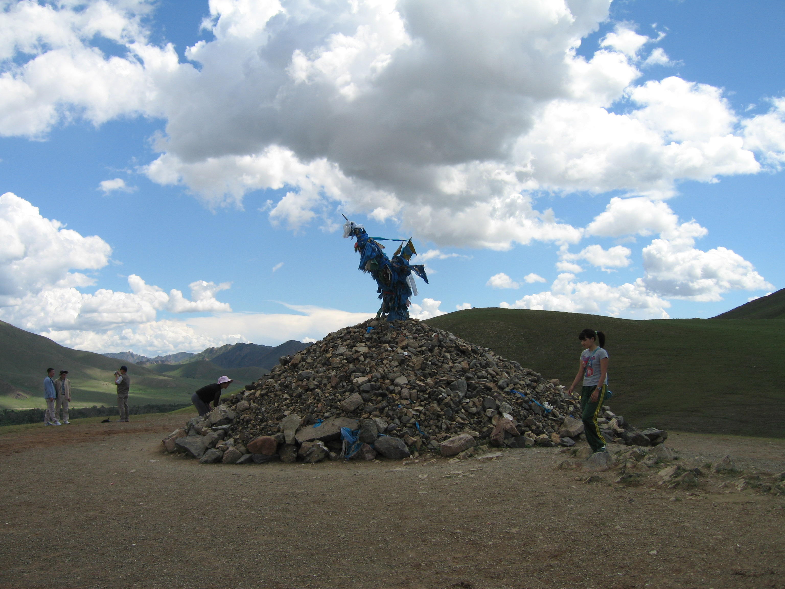 A Mongolian ovoo, picture taken in 2006.